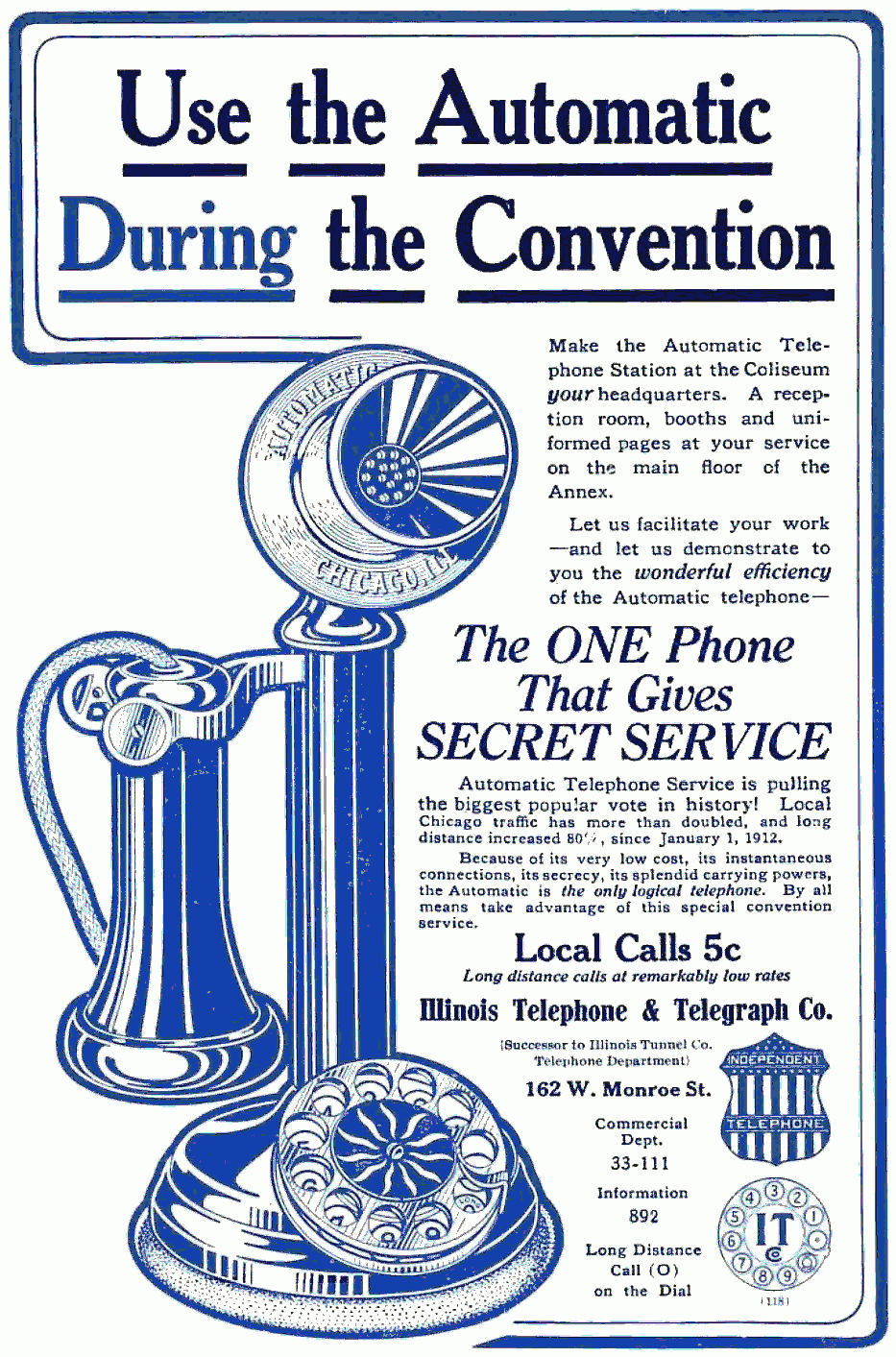 Advertisement for the automatic (dial) telephone service of the Illinois Telephone and Telegraph Company (successor to the Illinois Tunnel Company).